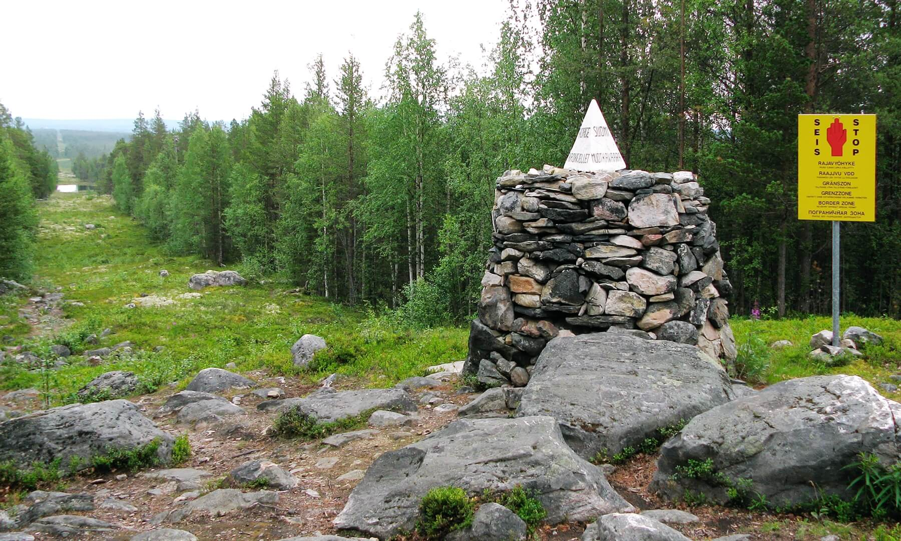 Tripoint of Russia-Norway-Finland borders. To go around the stone is not permitted. Crossing Russia-Finland and Russia-Norway borders from both countries is permitted only via official border crossing points and this is not such point. If a person is not carrying any goods to declare, then Finland-Norway border can be crossed here because both countries are part of the Schengen Area.